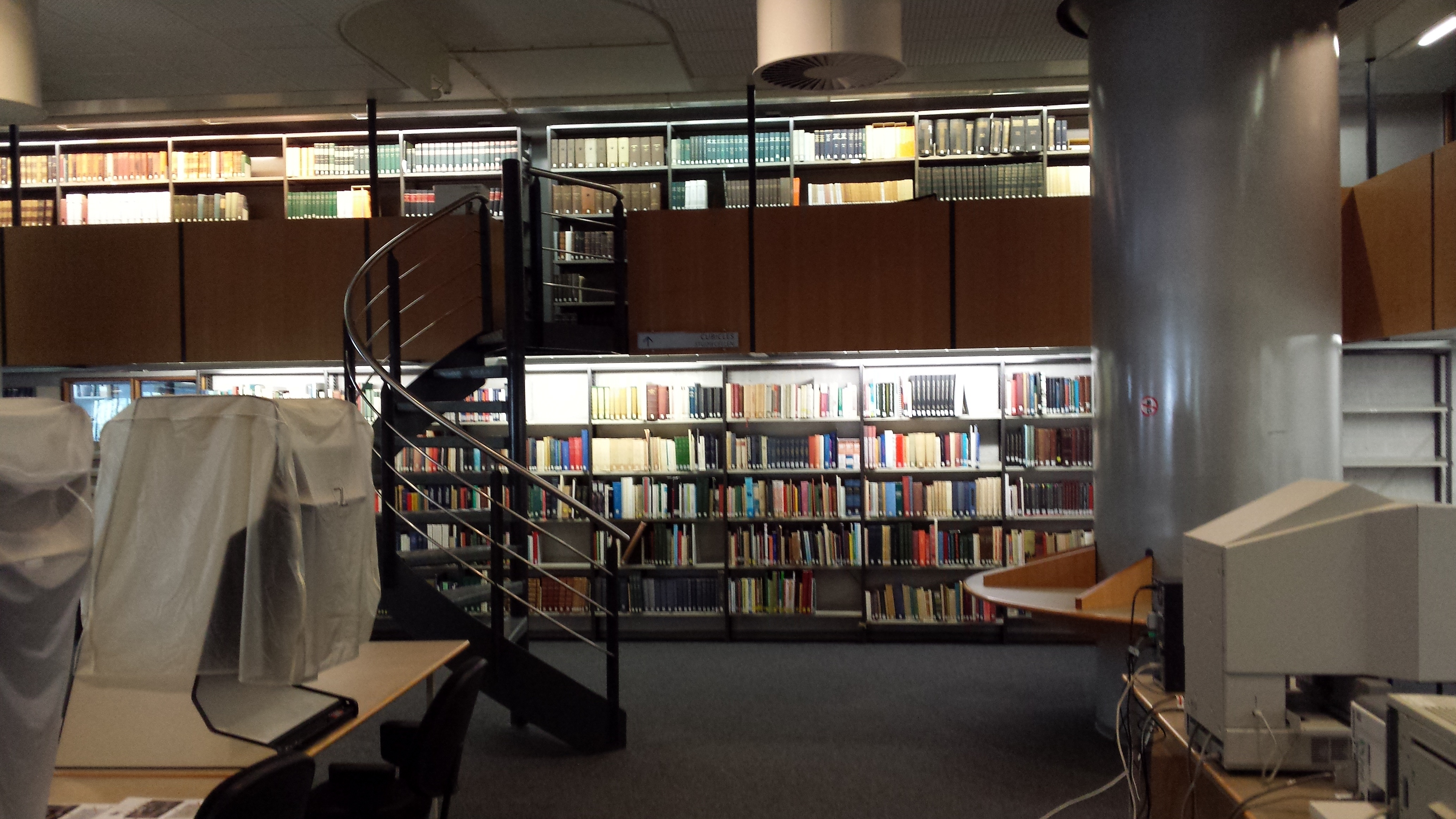 The library of International Institute for Social History (Reading Room) in Amsterdam, 2014